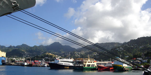 Kingstown, St. Vincent